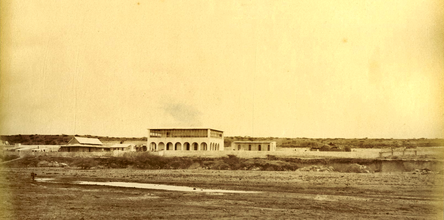 Open-air coal depot at Obock circa 1885 (behind the wall on the right). On the left, the first commercial establishments built at Obock after 1881. The large building near the center of the photograph housed the Factoreries Françaises of L. A. Brémond. Albumen print.